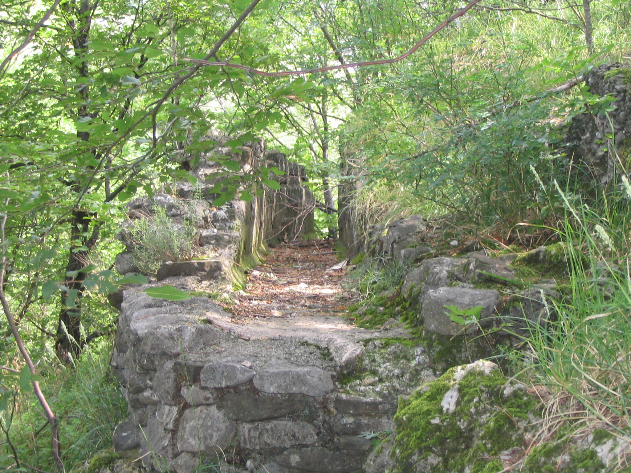 Remains of Ancient Roman waterworks in the Rosandra River Valley near Trieste. Photo taken by User:IzTrsta in July 2005 with a digital camera.